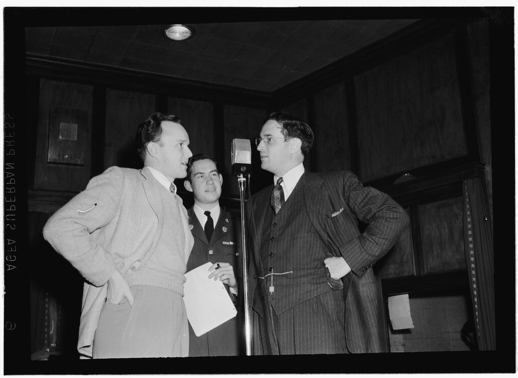 Gottlieb, Delia Potofsky, photographer. [Portrait of Will Bradley, Mart Garvey, and William P. Gottlieb, NBC/WRC show, Washington, D.C., ca. 1940] 1 negative : b&w ; 2 1/4 x 3 1/4 in. Notes: Gottlieb Collection Assignment No. 036 Reference print available in Music Division, Library of Congress. Purchase William P. Gottlieb Forms part of: William P. Gottlieb Collection (Library of Congress). Subjects: Bradley, Will Garvey, Mart Gottlieb, William P. Jazz musicians--1930-1950. Trombonists--1930-1950. News photographers--1930-1950. Format: Portrait photographs--1930-1950. Group portraits--1930-1950. Film negatives--1930-1950. Rights Info: Mr. Gottlieb has dedicated these works to the public domain, but rights of privacy and publicity may apply. Repository: (negative) Library of Congress, Prints & Photographs Division, Washington D.C. 20540 USA, (reference print) Library of Congress, Music Division, Washington D.C. 20540 USA, Part Of: William P. Gottlieb Collection (DLC) 99-401005 General information about the Gottlieb Collection is available at Persistent URL: Call Number: LC-GLB23- 0080 This work is from the William P. Gottlieb collection at the Library of Congress. Rights and restrictions.In accordance with the wishes of William Gottlieb, the photographs in this collection entered into the public domain on February 16, 2010.